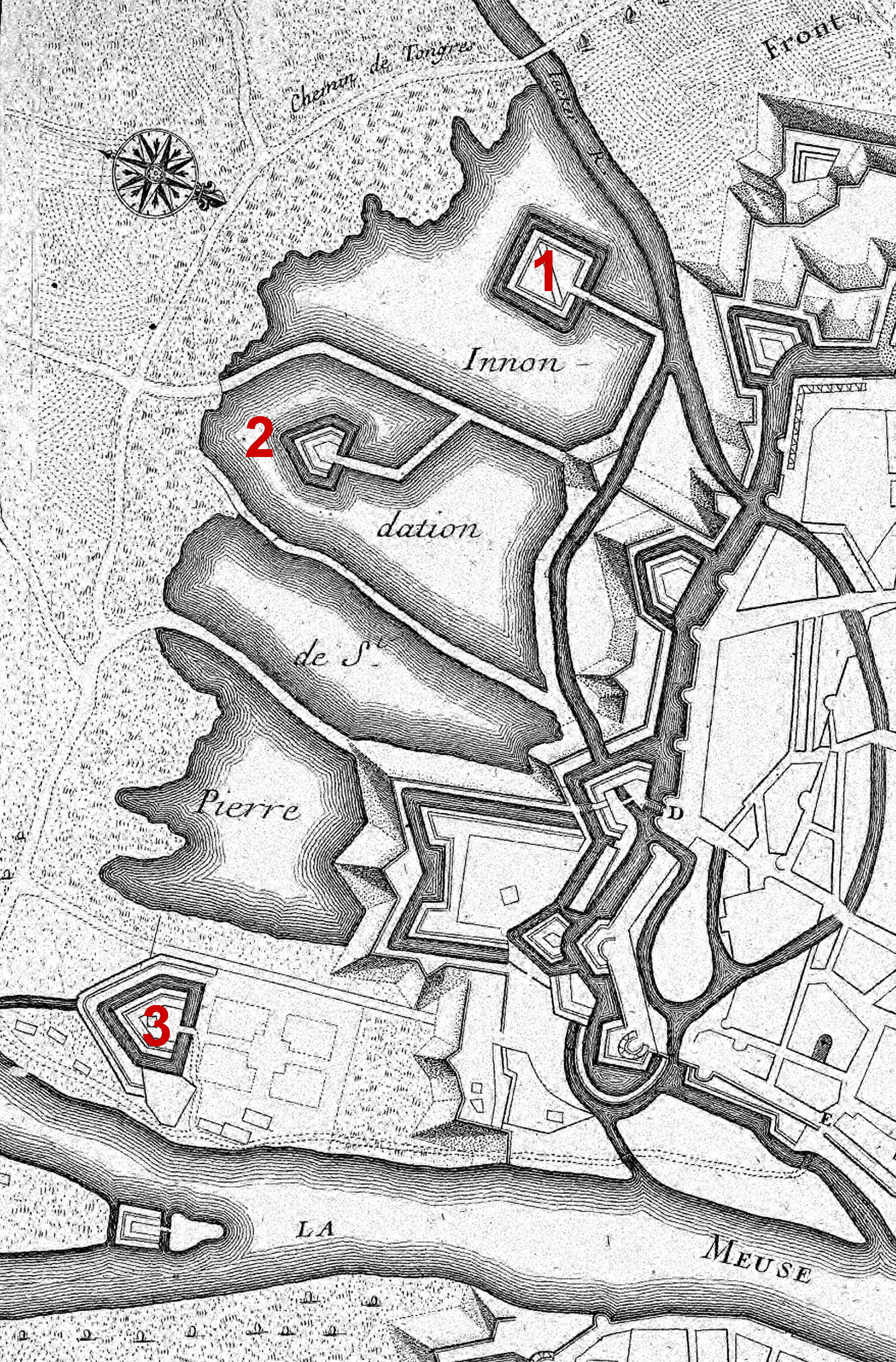 Detail of a French map of the fortifications of Maastricht, the Netherlands, published in 1708 in Paris. This section shows the inundations south of the city, usually called De Kommen; in